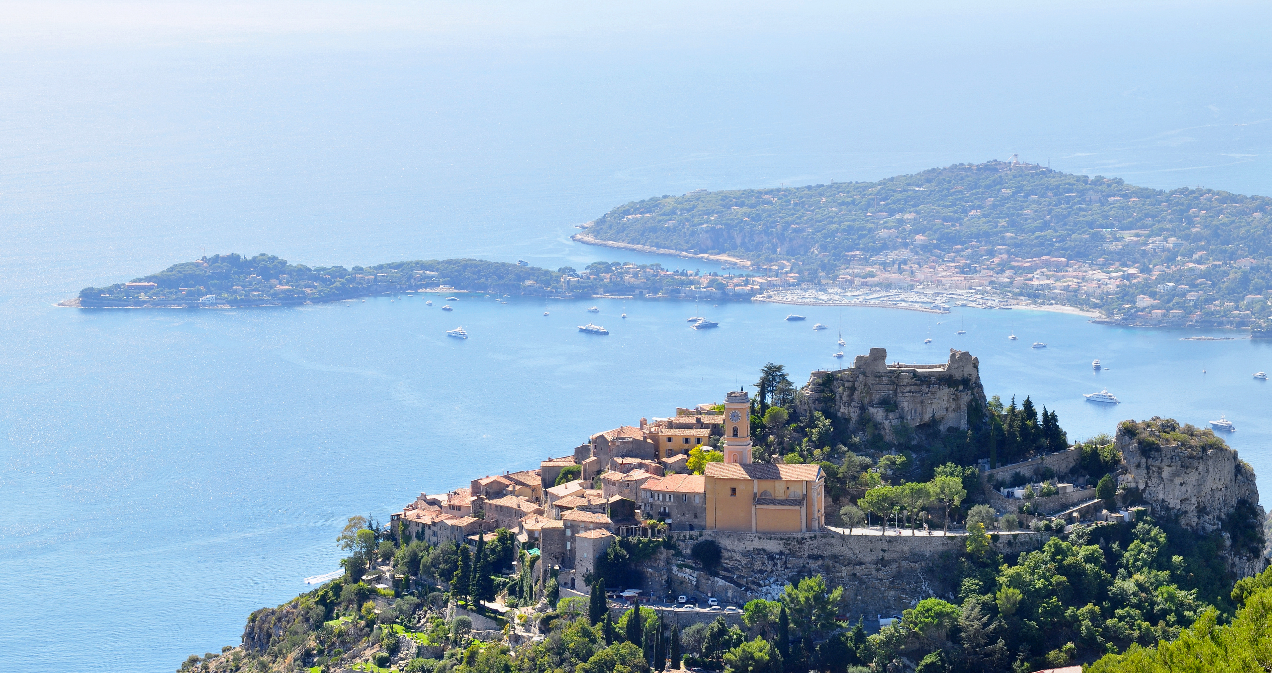 The village of Èze, with its church “Our Lady of Assumption” (Notre-Dame de l’Assomption) and its castle in the foreground, and the Cape Ferrat in the background.